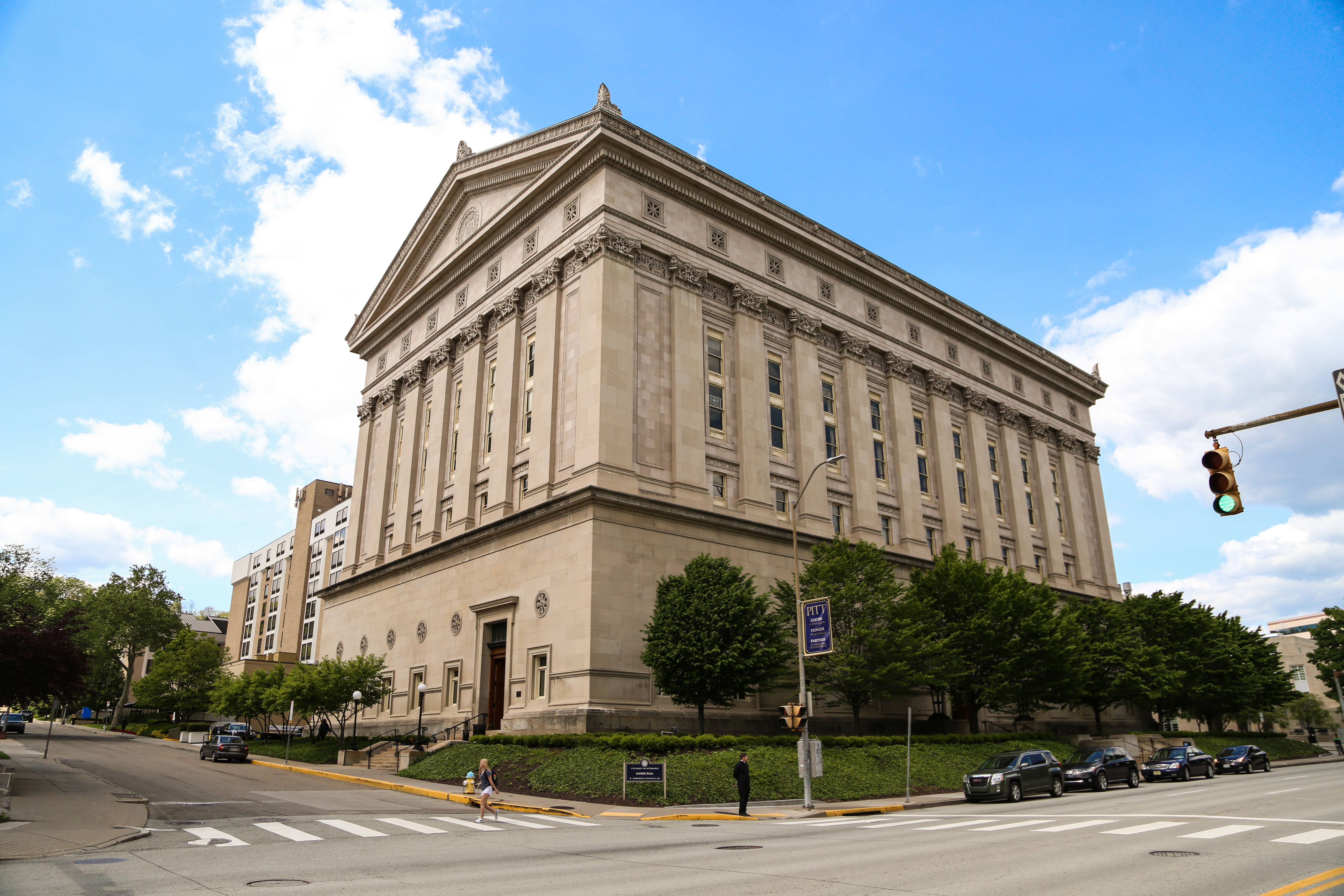 Alumni Hall at the University of Pittsburgh. Home to the Office of Admissions and Financial Aid, Alumni Relations, and many more.